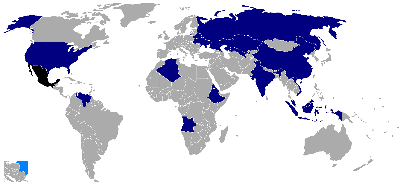 Su27/Su30 operators, as listed on en wiki. Former shown in light blue. (cold war countries shown inset at bottom left). Countries that have ordered the aircraft and are yet to receive/in process of receiving their first batches are shown in black